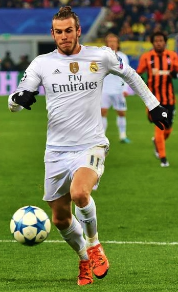 Gareth Bale